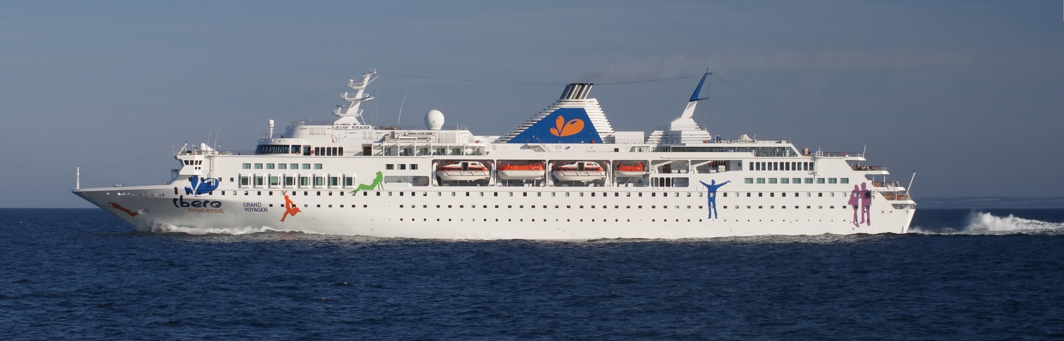 MV Grand Voyager observed in the Baltic Sea north of Bornholm (Davids Banke).